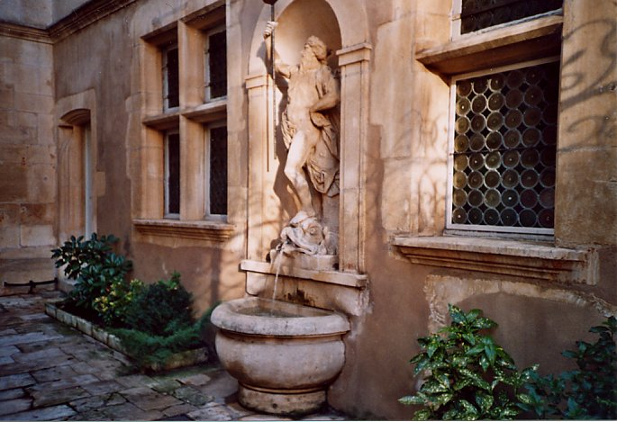 Hôtel d'Haussonville (Nancy)